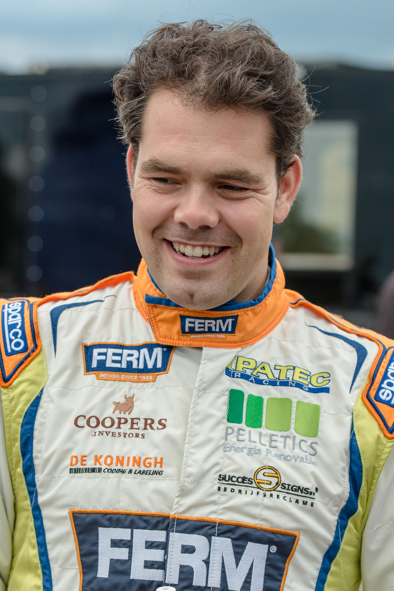 ADAC Rallye Deutschland 2014,Dennis Kuipers,FIA,FIA World Rally Championship,Motorsport,Rally,Rallye,WRC